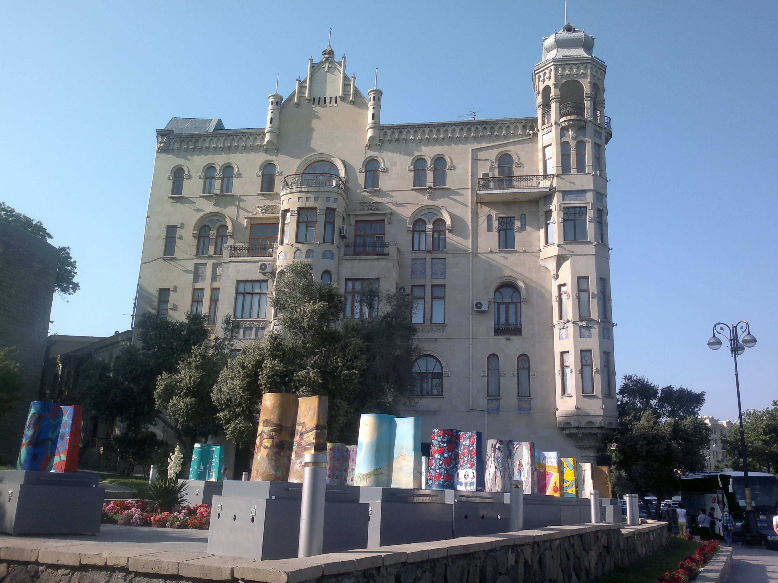 House of Isa bey Hajinski during "Maiden Tower" International Art Festival